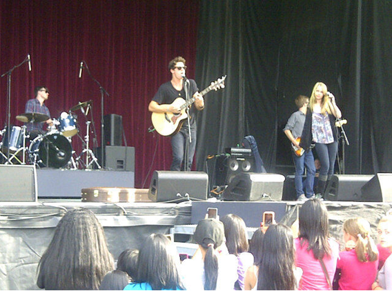 Shane Harper and Bridgit Mendler performing "Stand by Me" by Ben E. King on Summer Night Concerts, in Vancouver, Canada, in August 22, 2011. (photographed from my phone, sorry for the bad quality)